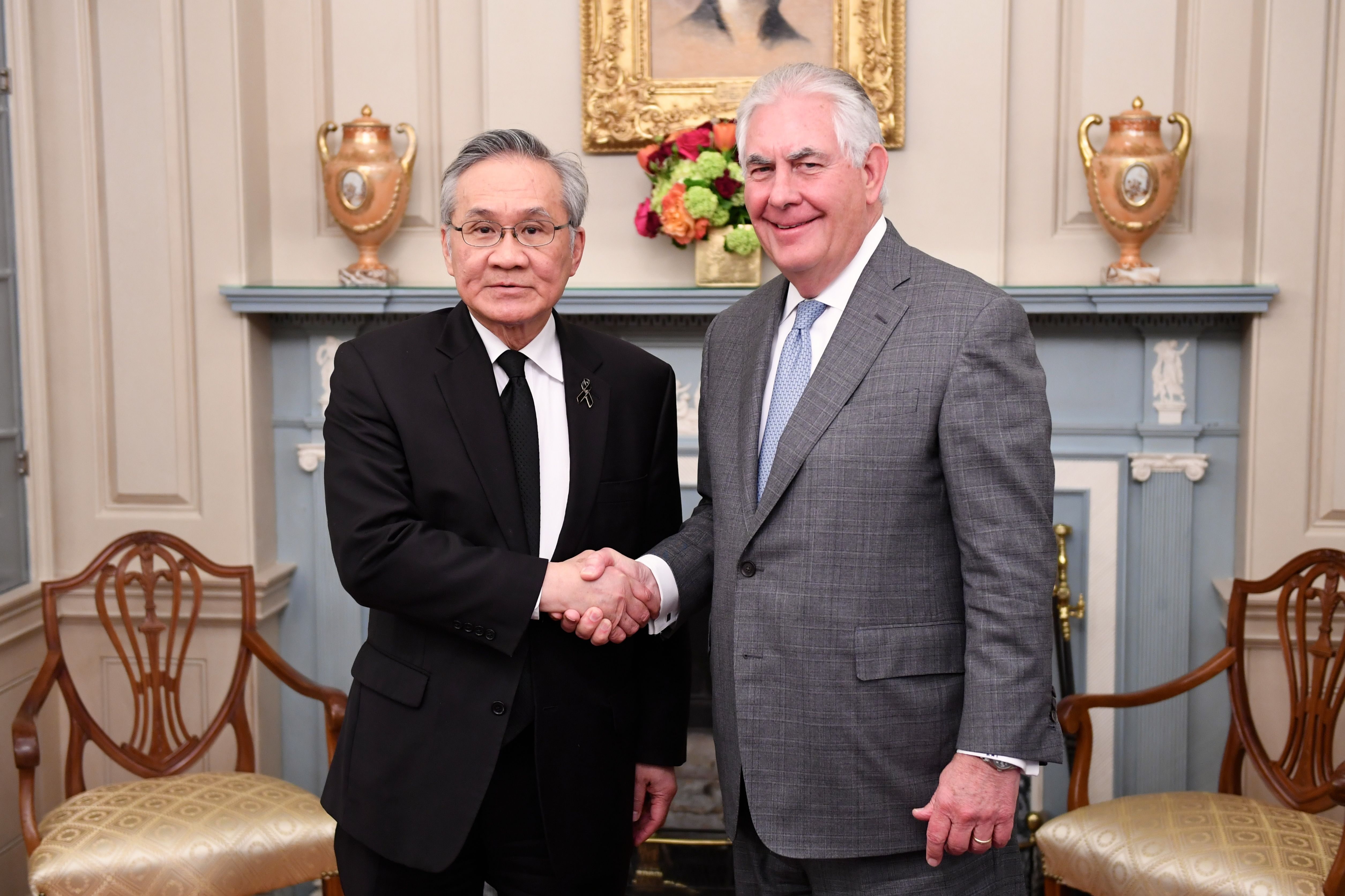 U.S. Secretary of State Rex Tillerson poses for a photo with Thai Foreign Minister Don Pramudwinai before their bilateral meeting at the U.S. Department of State in Washington, D.C., on May 4, 2017. [State Department photo/ Public Domain]